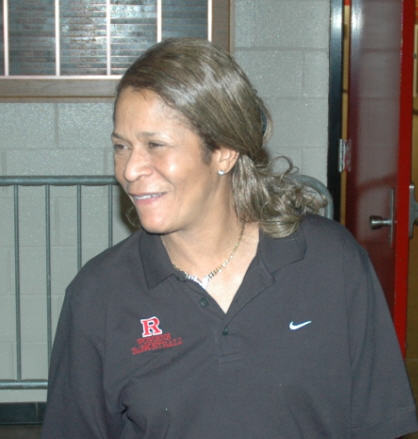 Rutgers women's basketball coach C. Vivian Stringer at the Louis Brown Athletic Center in Piscataway, New Jersey, before tipoff of the Rutgers-Tennessee Tech men's game on November 9, 2007.